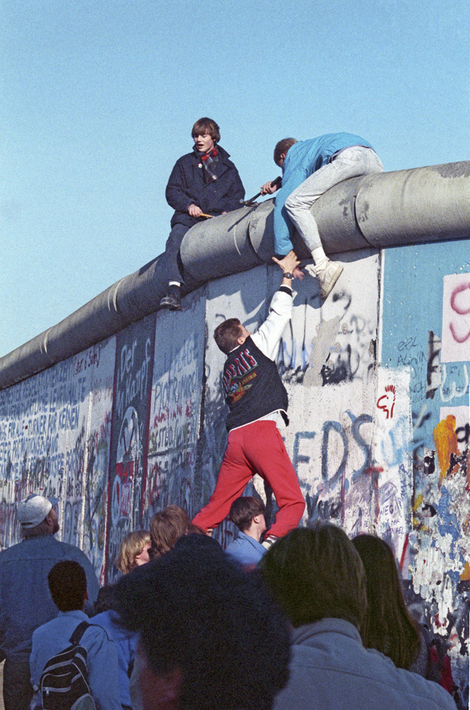 “Berlin Wall”. The Berlin Wall, a view from the west.